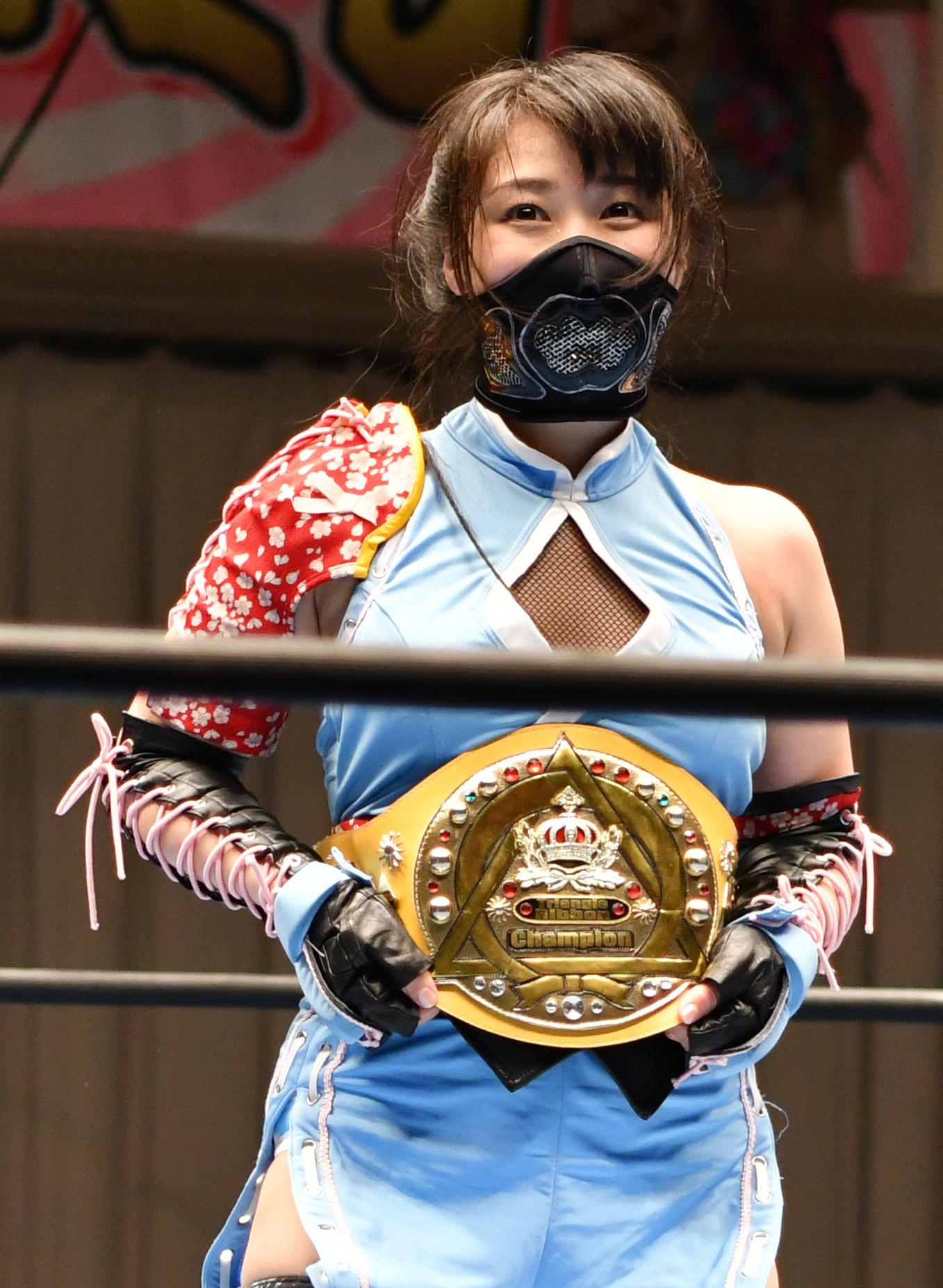 Triangle Ribbon Championship Belt: #23 Champion Ai Shimizu (July 3, 2016 at Korakuen Hall)